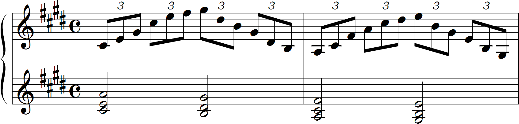 Claude Debussy's Premiere Arabesque melody and chords abstracted from that melody.